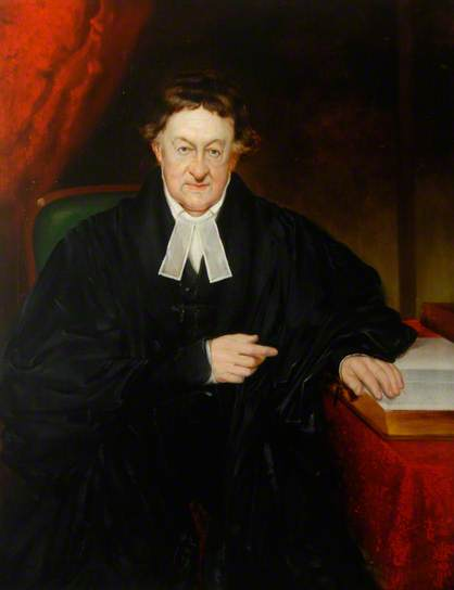 Portrait of William Turner (1761–1859), English Unitarian minister.